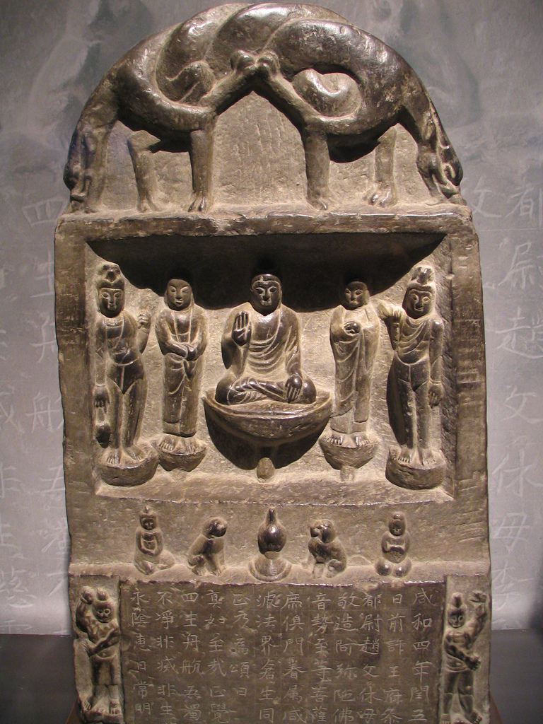 Stele from Balhe at the National Museum of Korea.